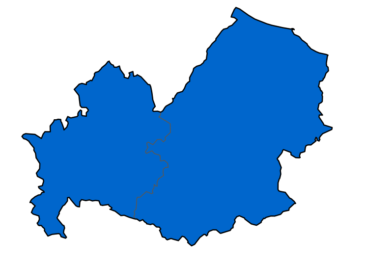 Election map for 2018 Molise regionale election.